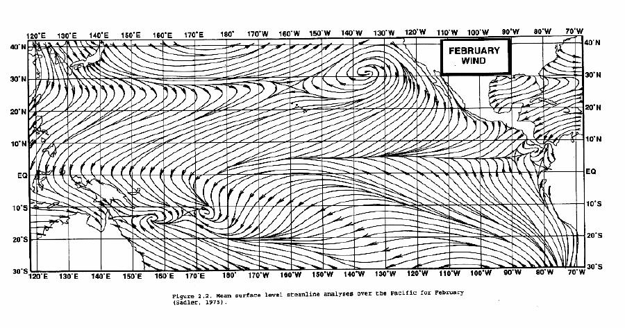 U.S. Navy, Naval Research Lab